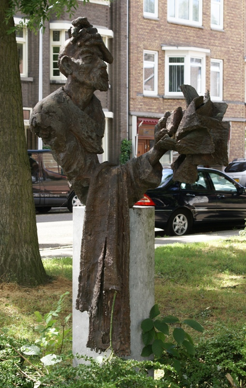 Buste of Willem Vliegen - Brandenburgerplein, Maastricht, The Netherlands. By Jack Poell, 1990.